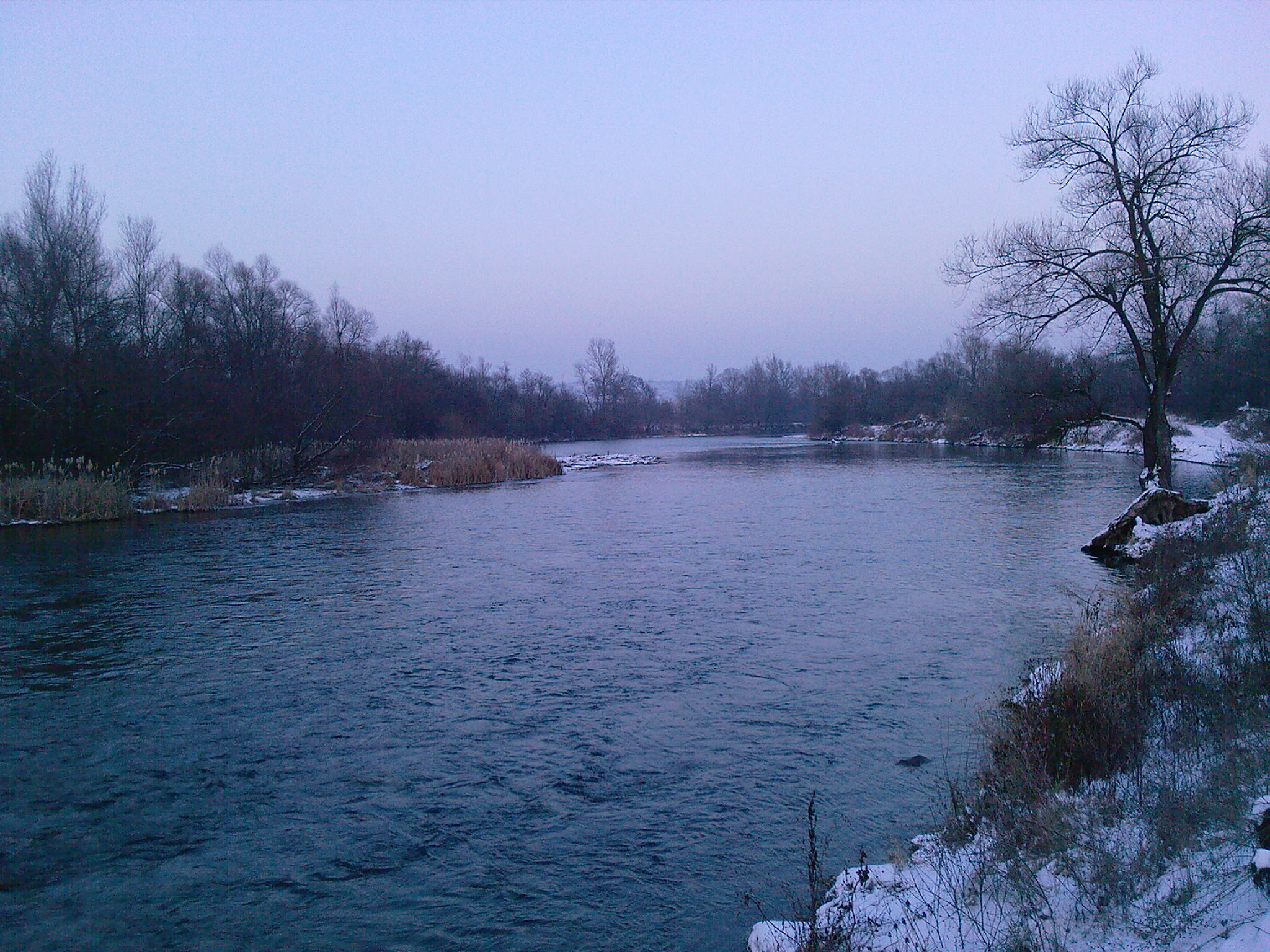 Zapadna Morava